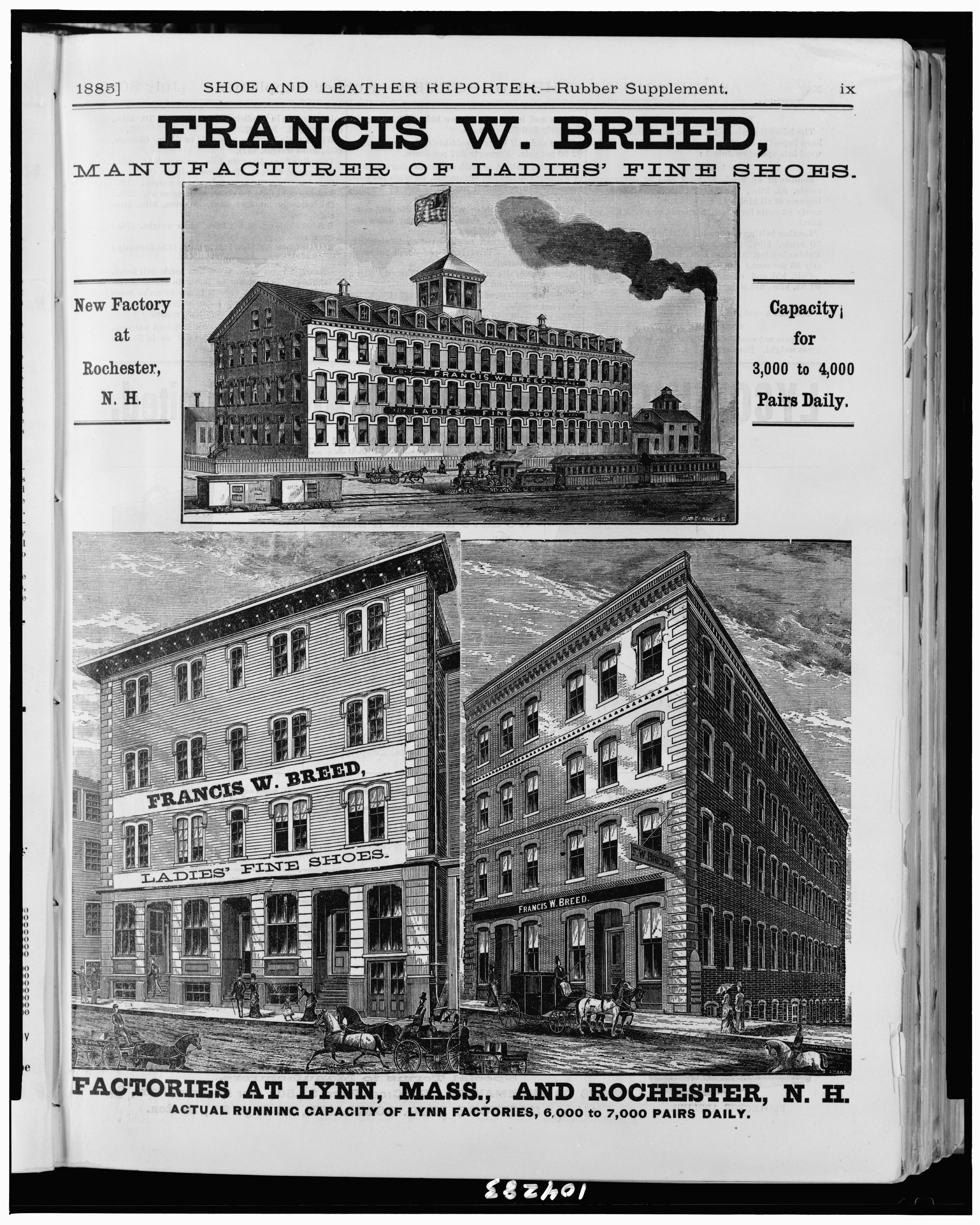 Title: Francis W. Breed, manufacturers of ladies' fine shoes. Factories at Lynn, Mass., and Rochester, N.H., actual running capacity of Lynn Factories 6,000 to 7,000 pairs daily / C.W. Clark, s.c. ; J.R. Howe, del ; J. Howe, sc. Abstract/medium: 3 prints (1 p.) : engraving.